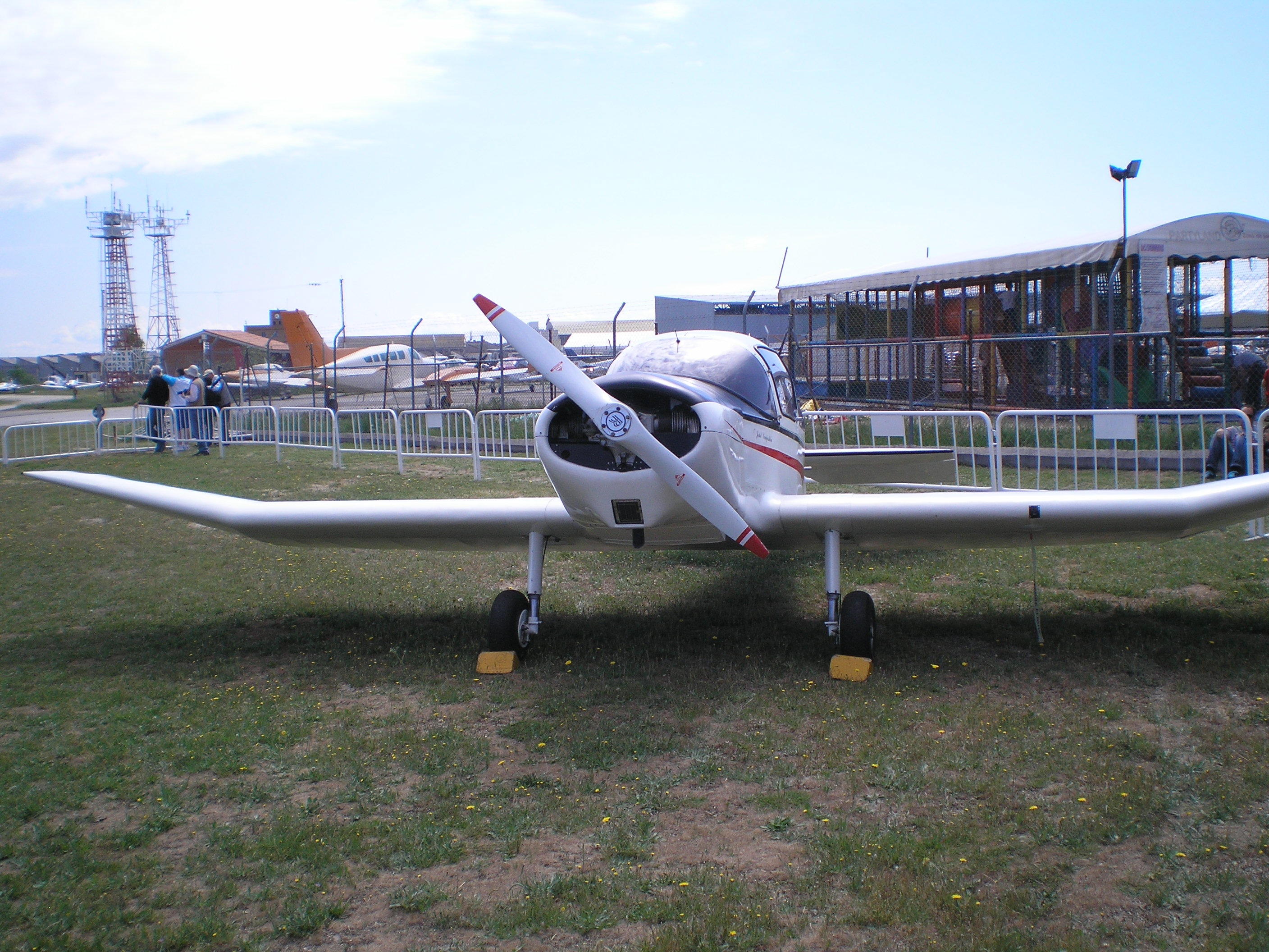 Jodel D119S Compostela.